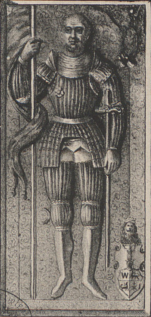 Olbracht Gasztołd (Albert Gaštold) *? - †1539. Cathedral of Wilnius. Published 1840 by litographer J. Oziębłowskiego, Wilnius, Lithuania.